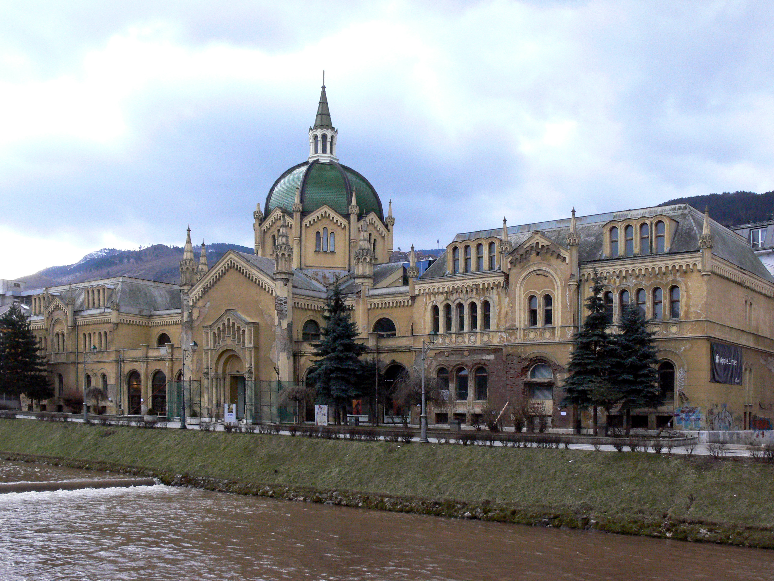 Academy of arts in Sarajevo. Earlier Protestant church.